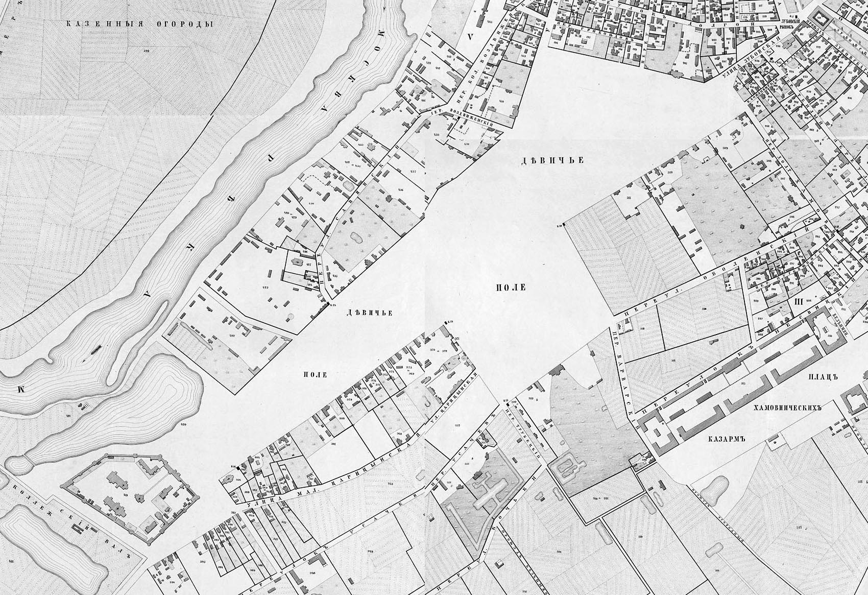 Map of Devichye Pole in Moscow, 1852 - prior to campus construction